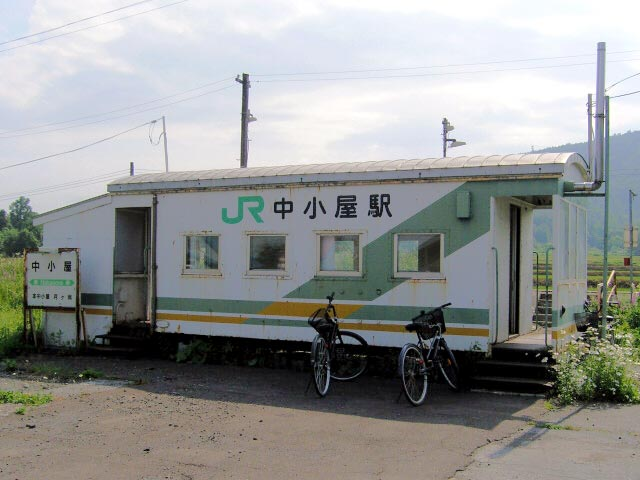 Nakagoya Station on Sassho Line, Japan